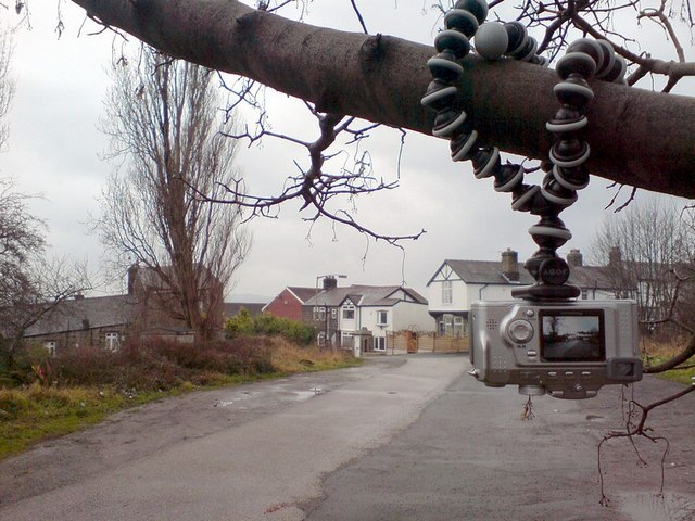 Adventures with a GorillaPod 4B - Wood Lane. I have found I can also use the GorillaPod to hang the camera from a tree branch - see 640083